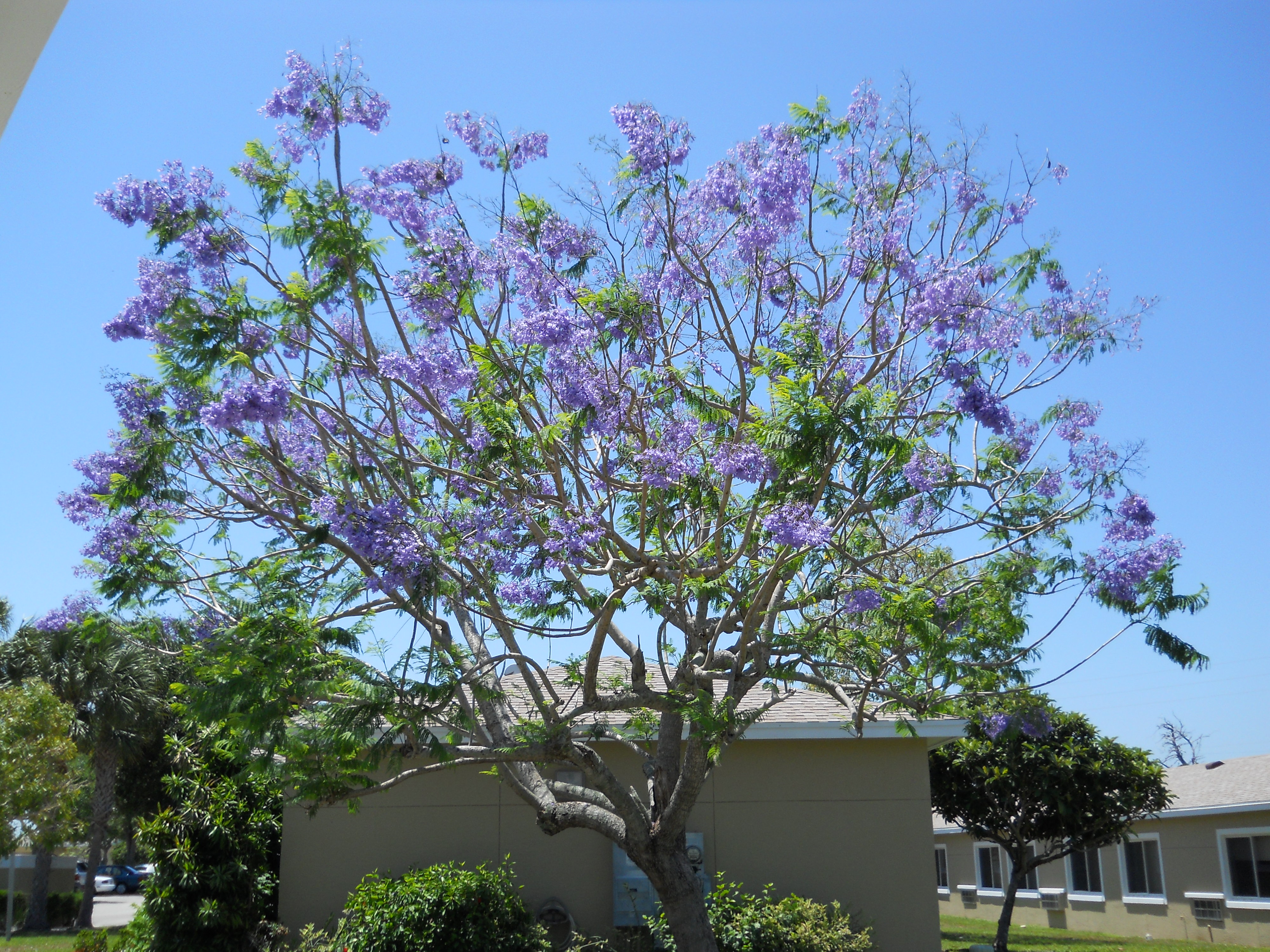 Jacaranda mimosifolia. Jensen Beach, Martin County, Florida